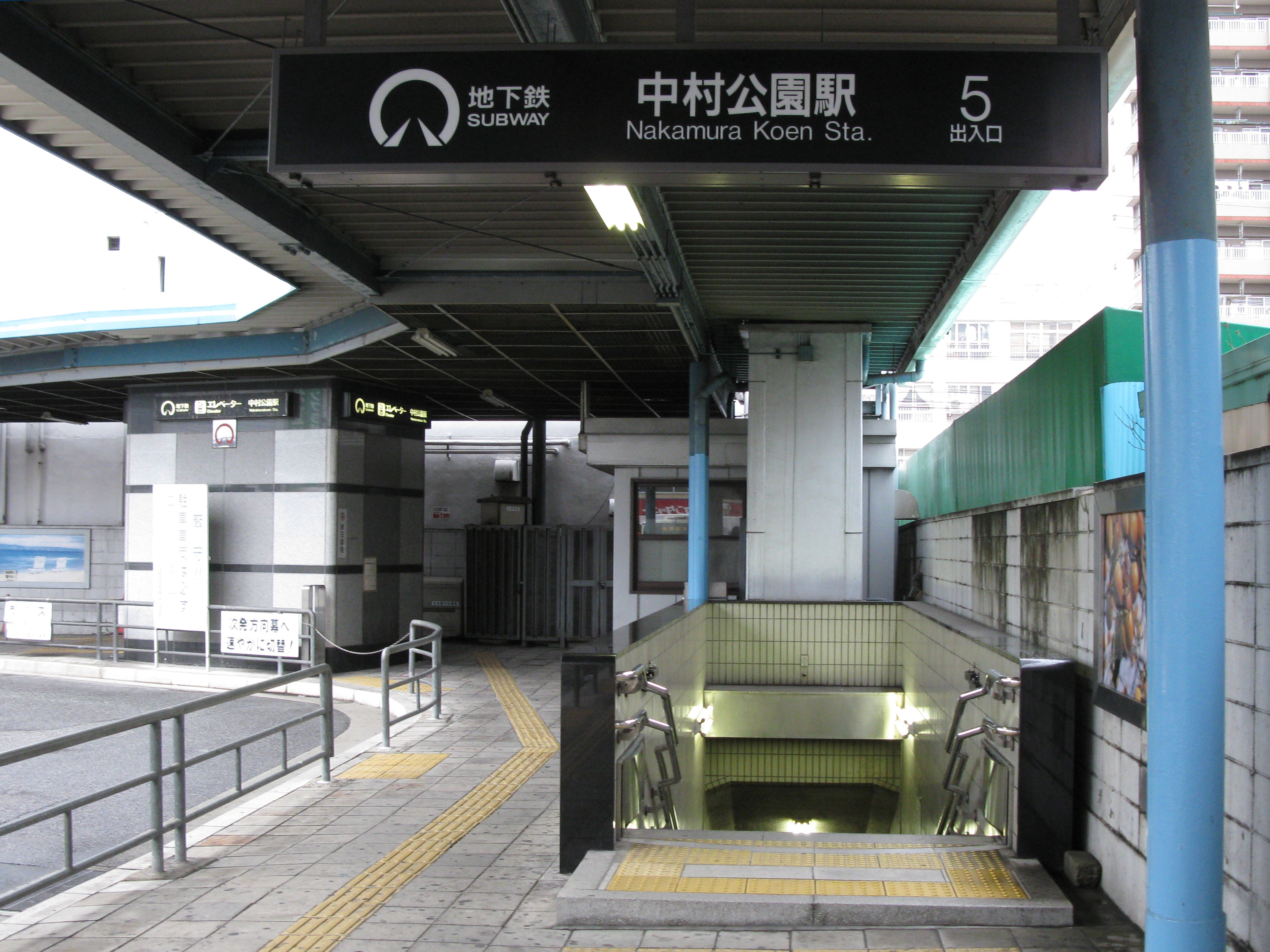 Nakamura Kōen Station no.5 entrance (Nagoya Municipal Subway Higashiyama Line)